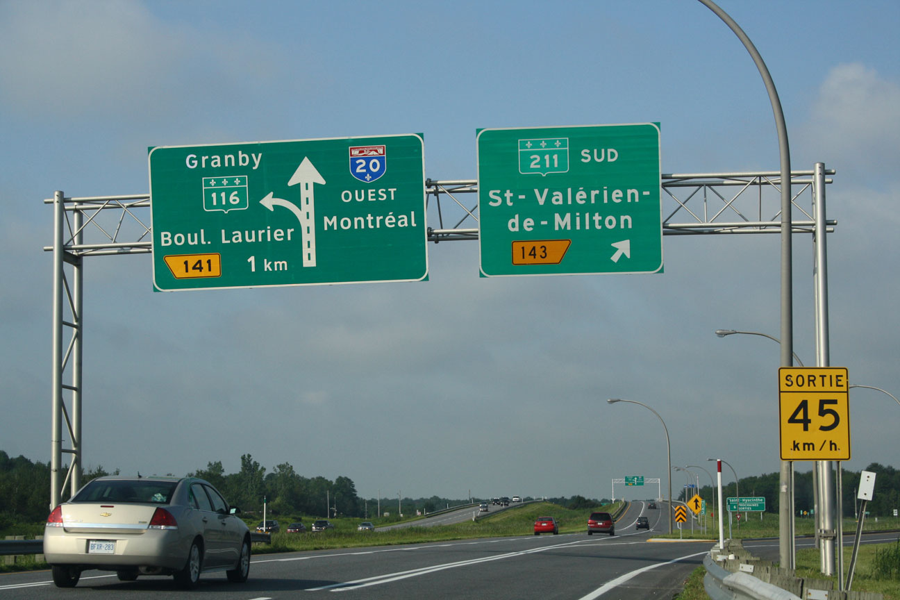 A new Clearview (left) and an old FHWA (right) highway signs in Saint-Simon-de-Bagot, Quebec, Canada, installed in June 2009 on Autoroute 20 westbound (To Montreal), at the exit 141. Notice the exit number and the route shields, on the new sign, who still use the FHWA typeface, and the "Granby" destination over the Route 116 shield instead of being below the name "Boulevard Laurier".